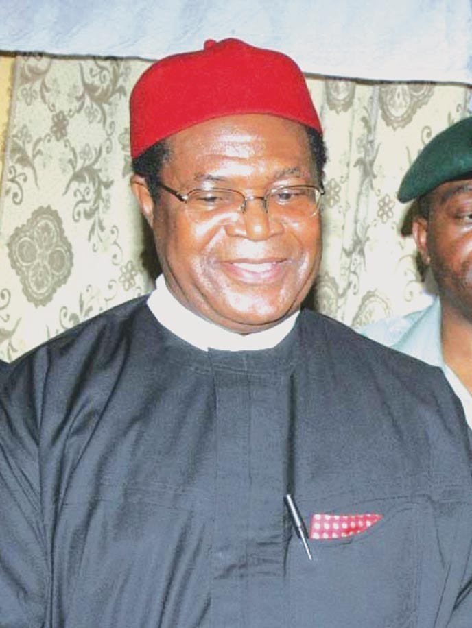 Governer of Nigerian Enugu State